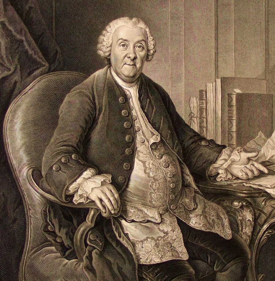 copperplate by Georg Friedrich Schmidt; original painting by Joachim Martin Falbe